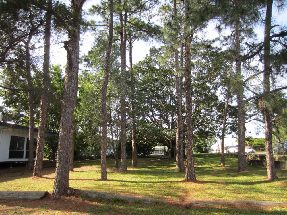 Virginia State School - Forestry plot E of tennis courts, from W (2015)